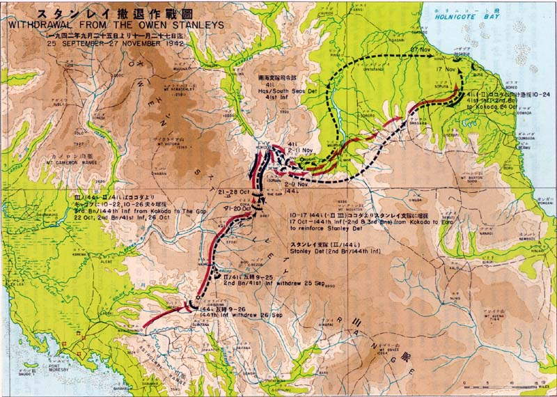 Japanese withdrawal from the Owen Stanleys, 25 September-27 November 1942